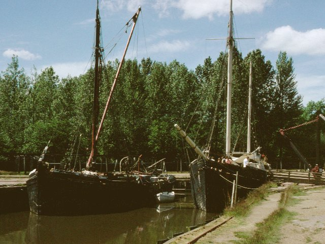 Morwellham Quay. This former transhipment quay in an area that was at one time very industrialised is now a Heritage Centre.